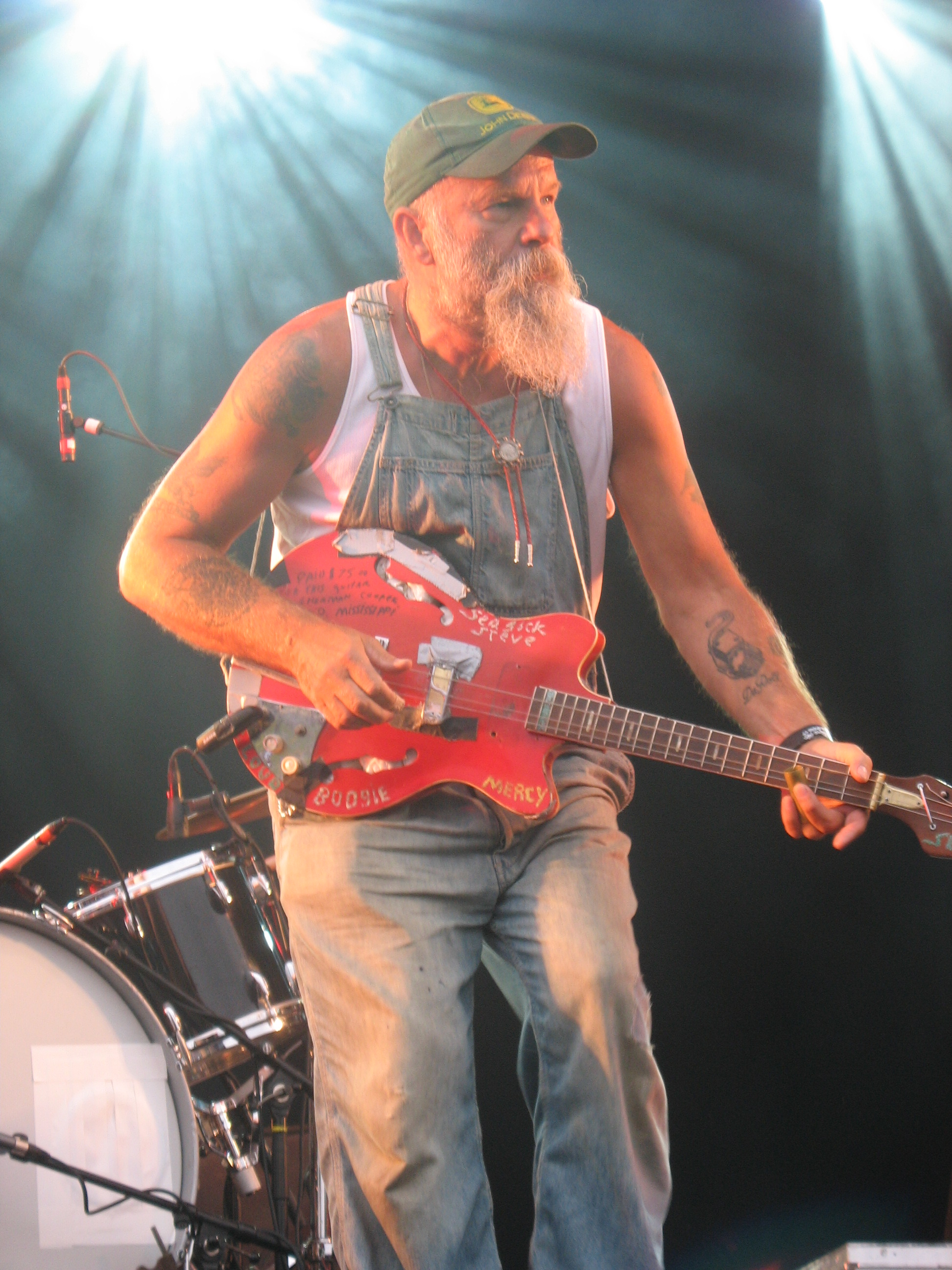 Seasick Steve, playing at "Where the action is", a music festival in Stockholm.